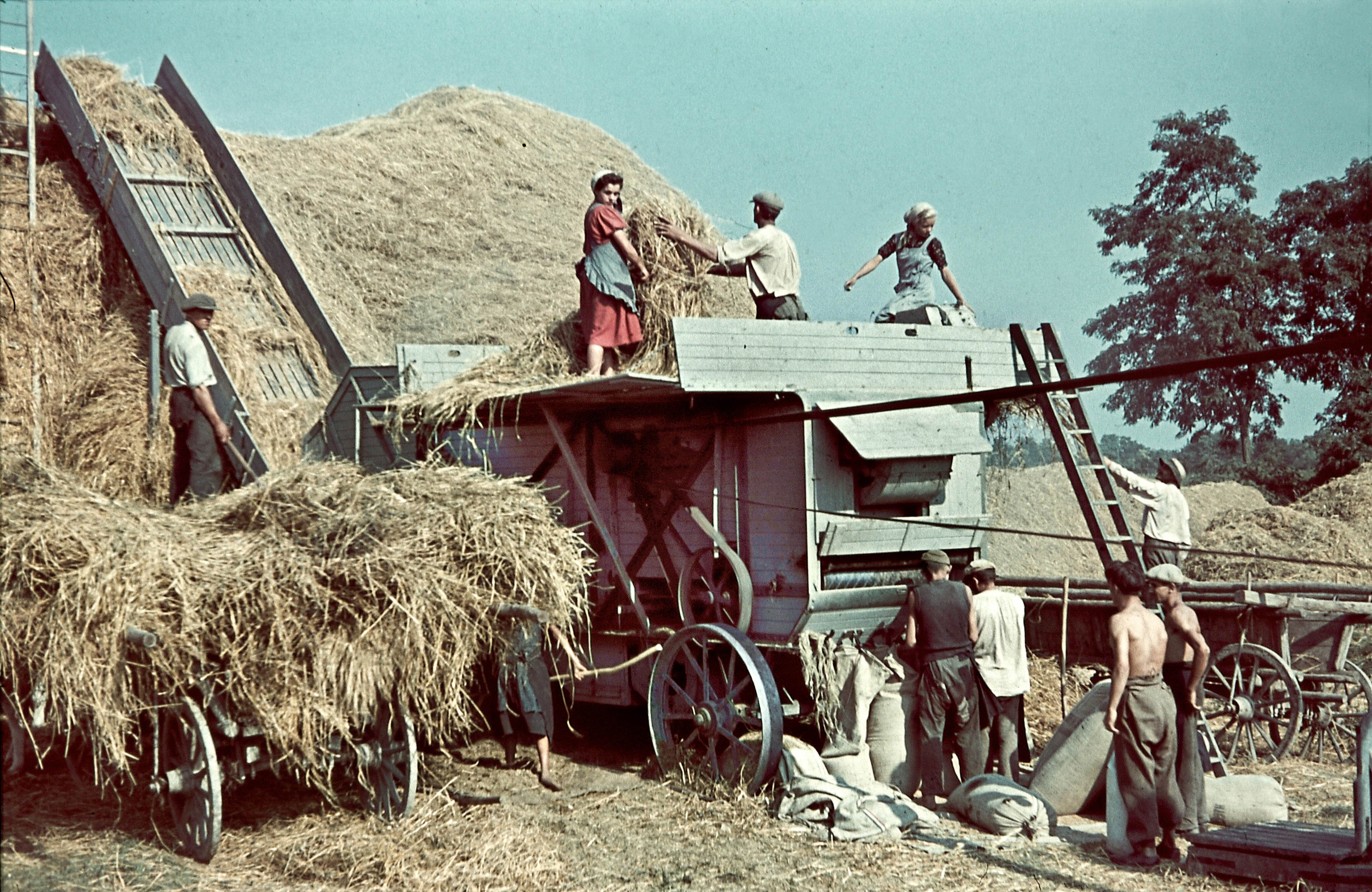 Harvesting in Hungary Tags: agriculture, colorful, threshing machine, harvest